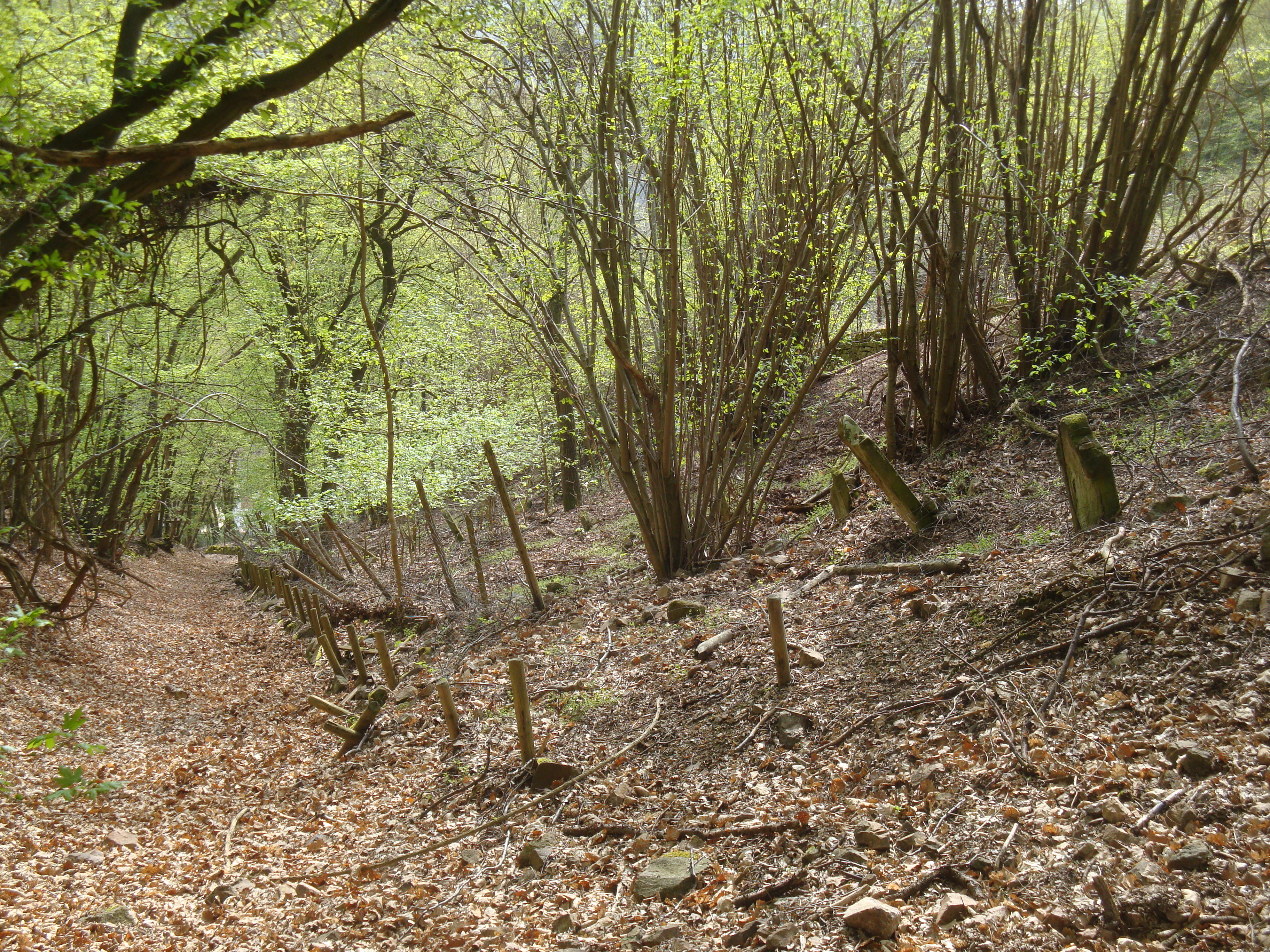 Old Jewish Graveyard Altenbamberg , Rhineland Palatinate ,Germany